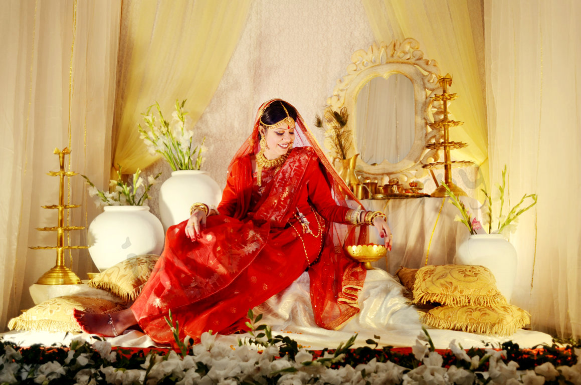 Traditional Bangladeshi bride in Jamdani sari.